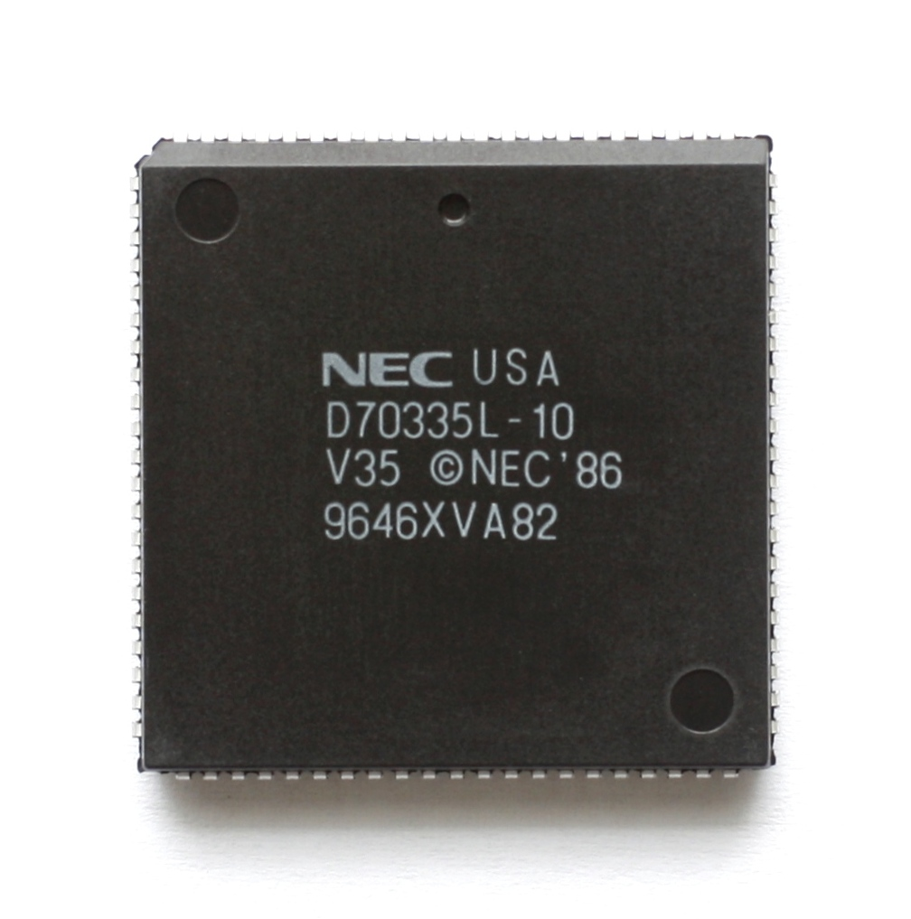 CPU NEC V35